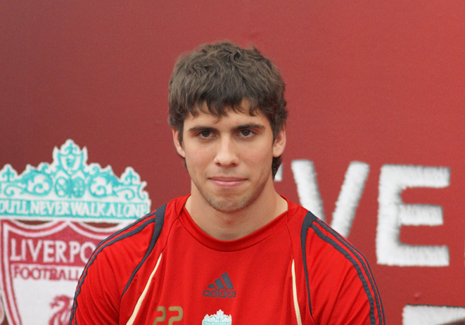 Argentinian football player, Emiliano Insúa, during Liverpool FC Asia Tour.